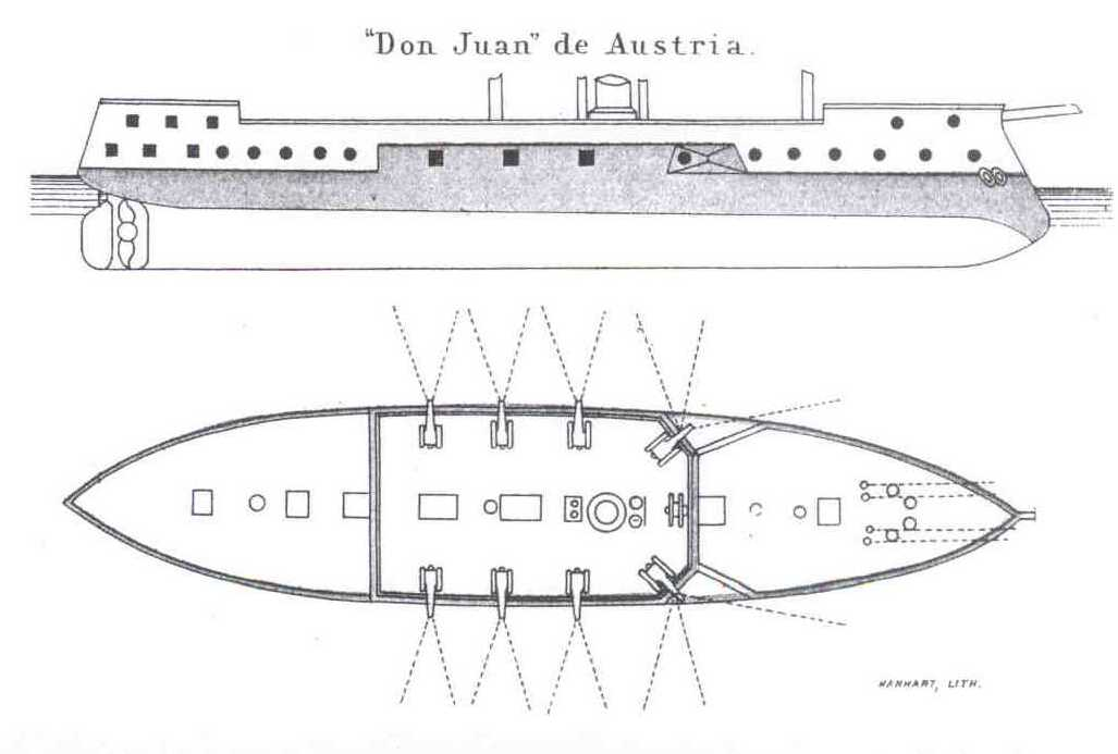 The Austro-Hungarian casemate ship Don Juan d'Austria. Officially, this was a rebuild of the 1863 vessel of the same name, but in reality only some armour and machinery was reused, and the original wooden ship was scrapped.